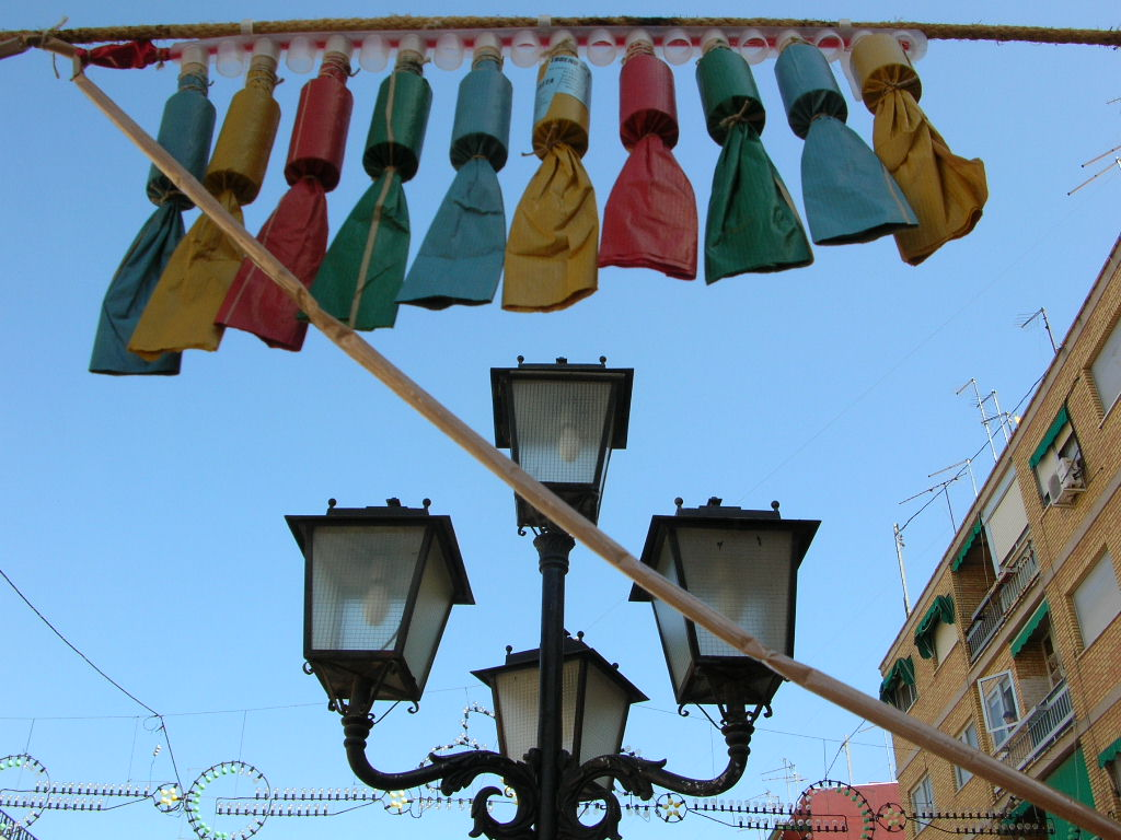 Quadruple bracket lamp post and square-shaped pedestal lanterns, Land of Valencia, Spain.